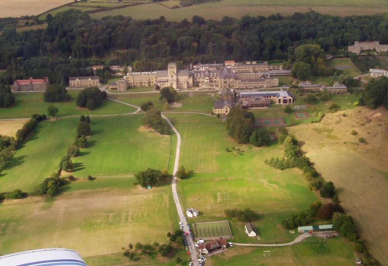 Aerial view of Ampleforth College.